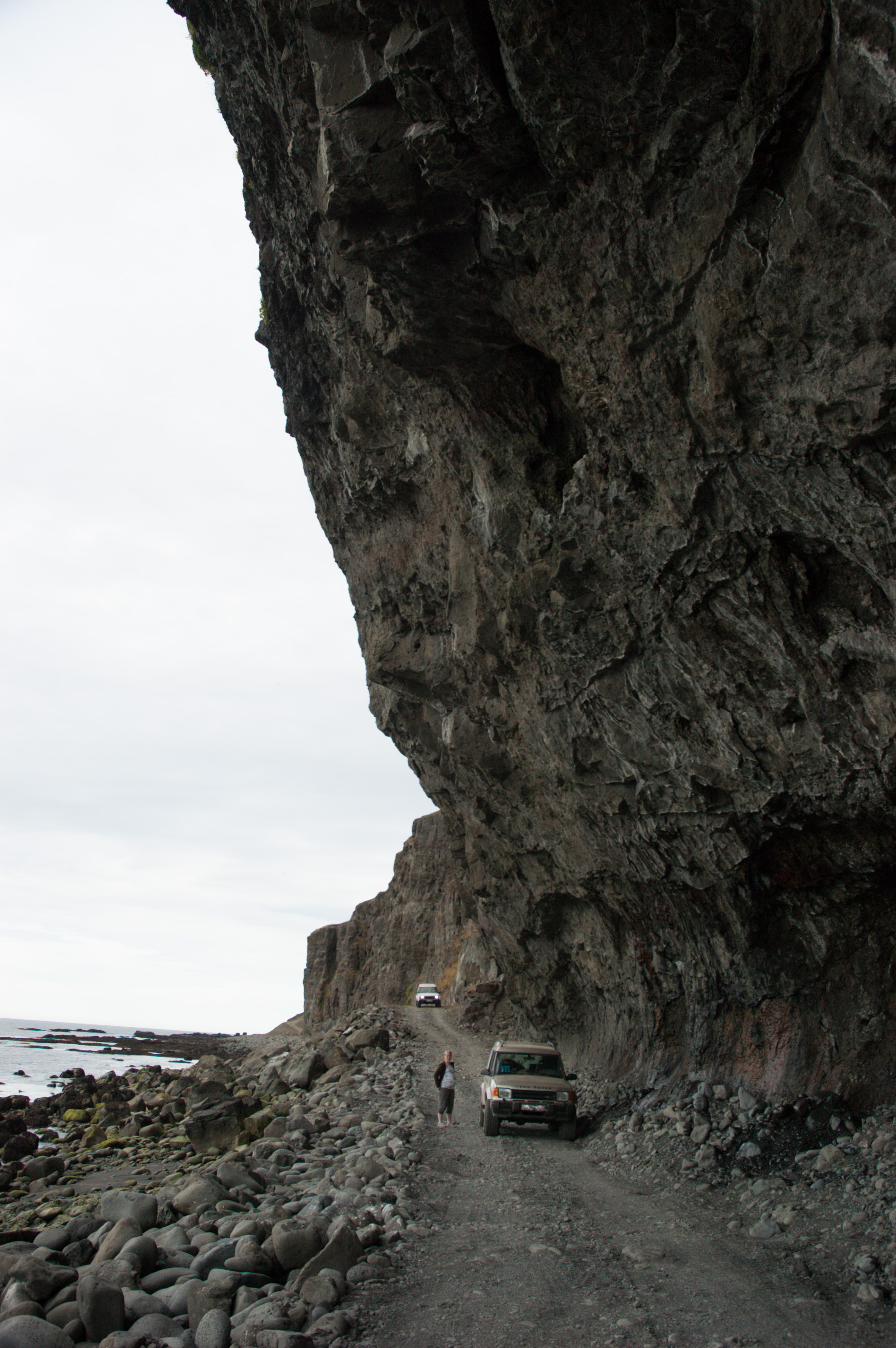 Svalvogavegur in Arnarfjordur Iceland